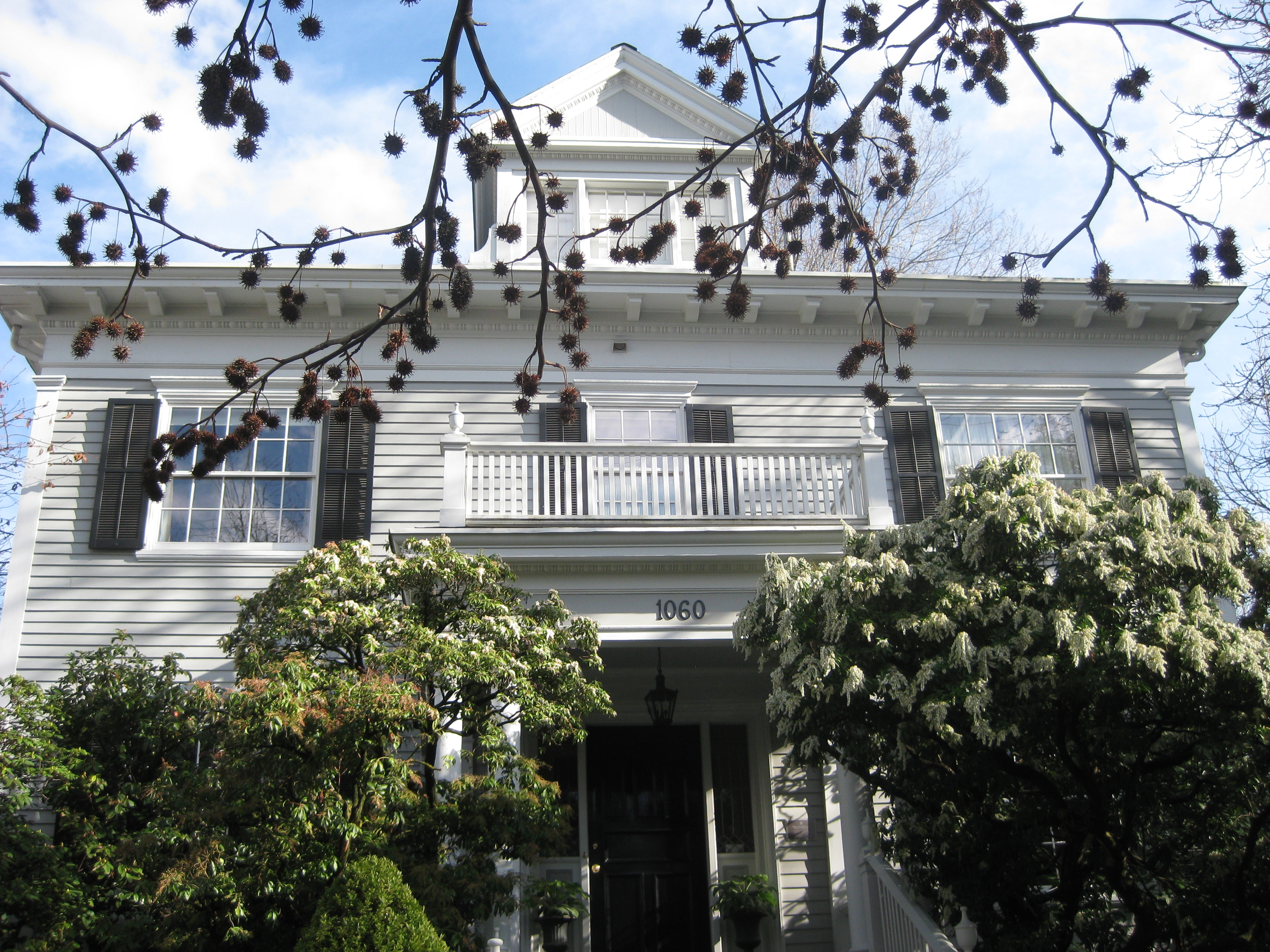 The historic Samuel W. King House (built 1898) located at 1060 SW King Ave in Portland, Oregon, United States, is listed on the US National Register of Historic Places (NRHP). It is also part of the NRHP-listed King's Hill Historic District.NRHP reference number 87001471